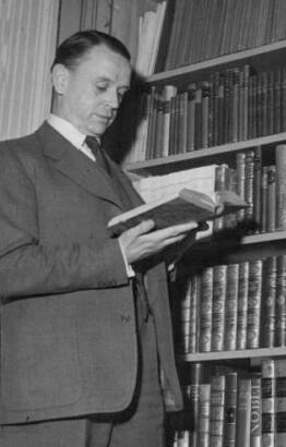 Associate Professor Uno Willers in the Nobel Library